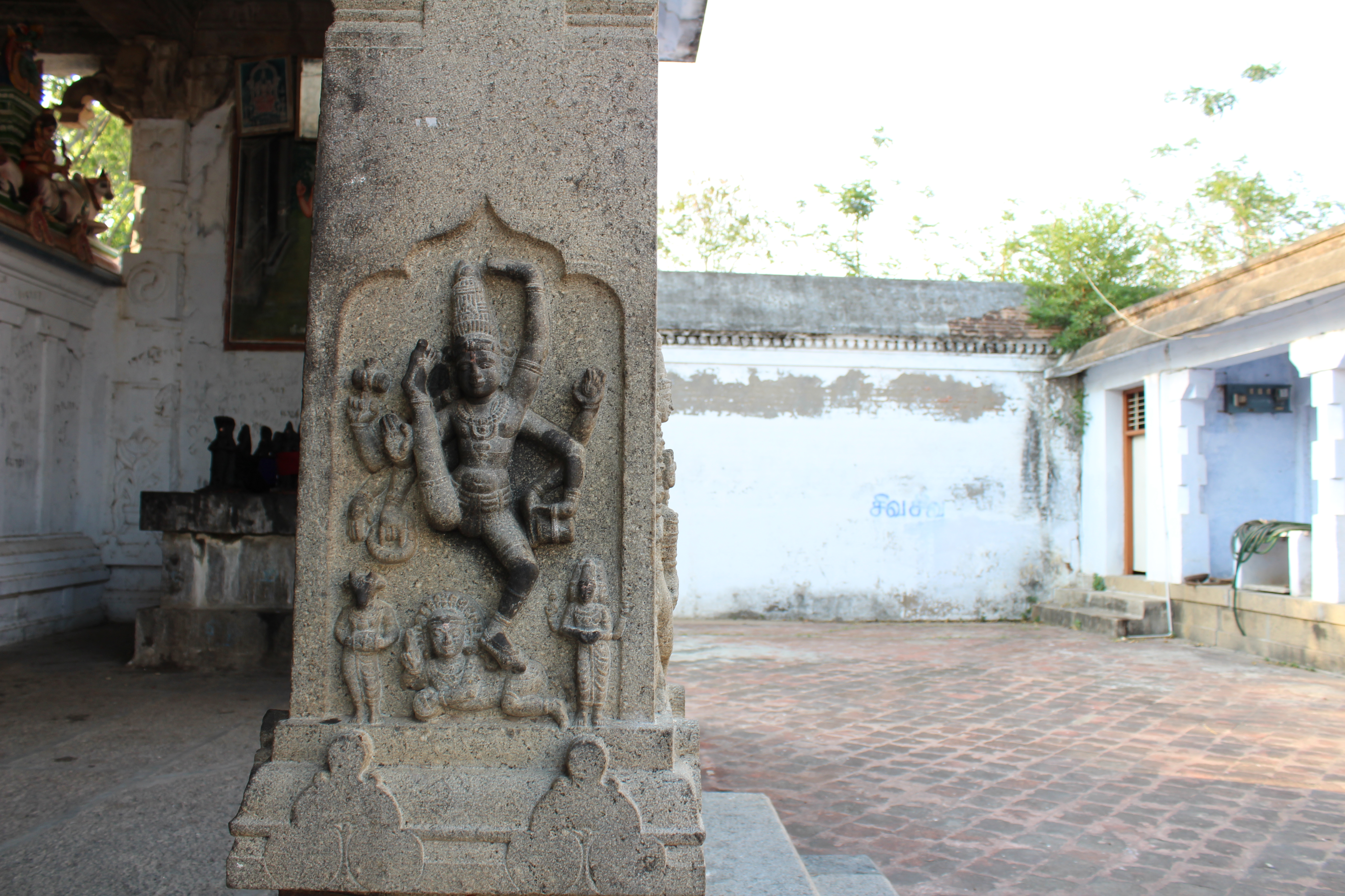 Thirunelvayil